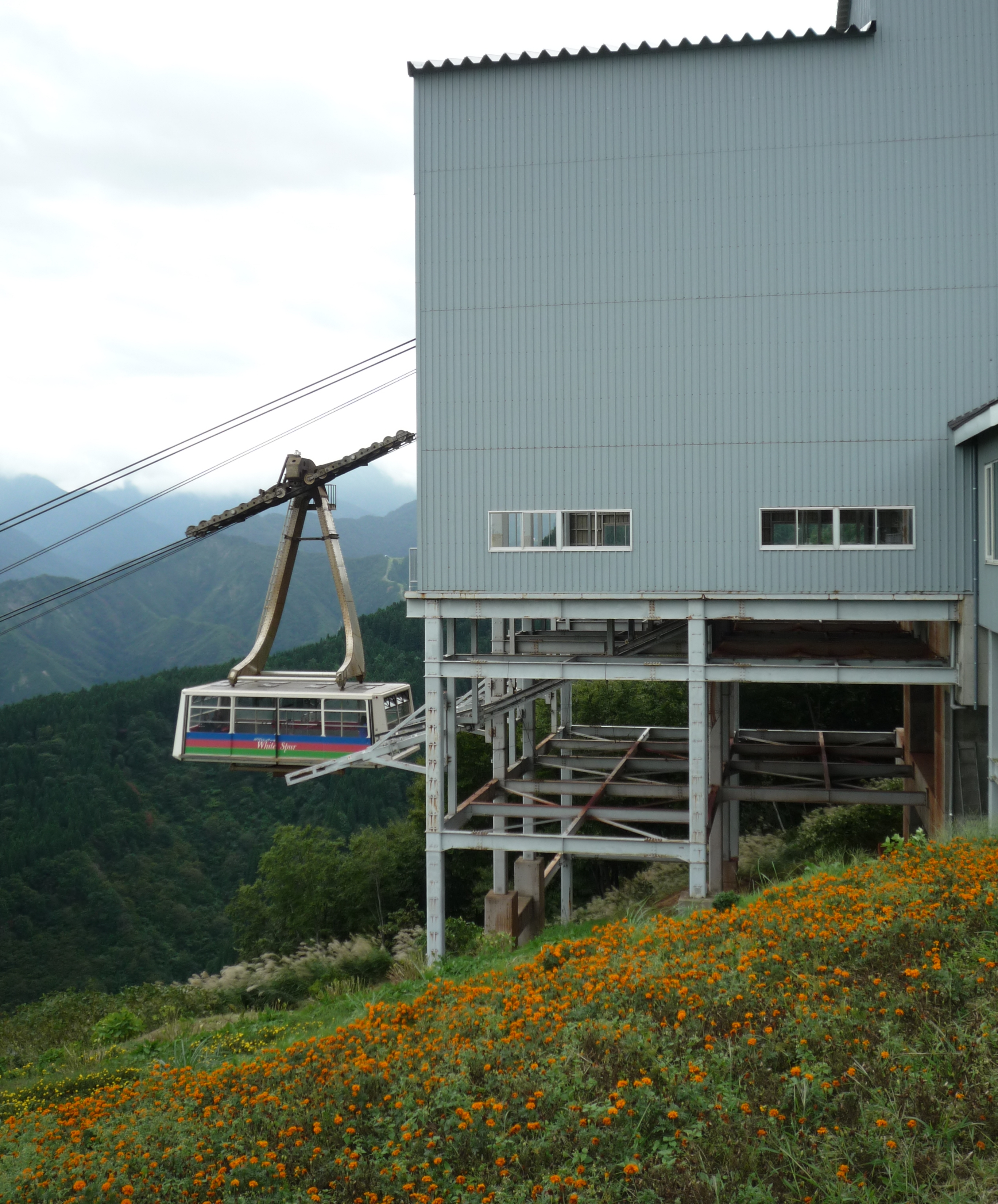 "White Spur" is arraiving to Panorama Station of Yuzawa Kōgen Ropeway in Yuzawa, Niigata Prefecture, Japan.